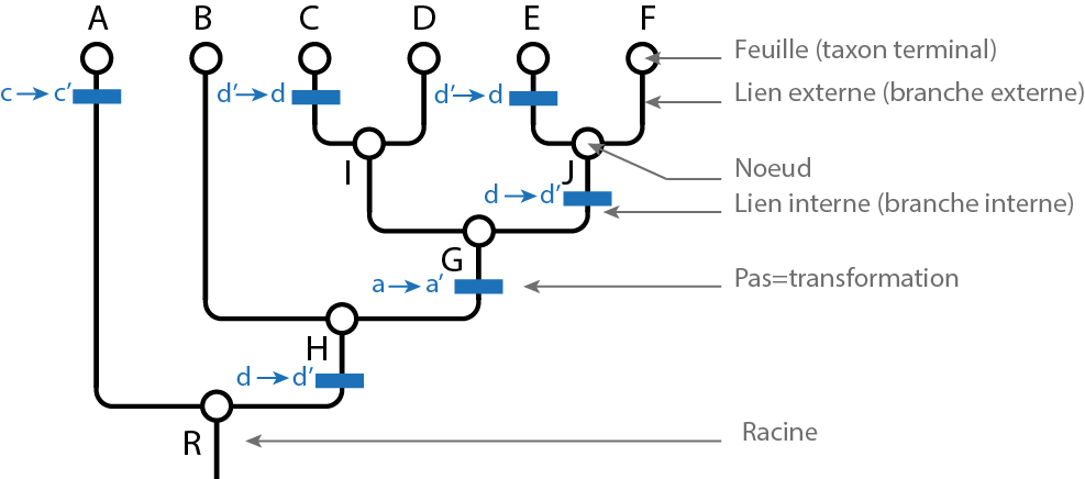 Cladogram example